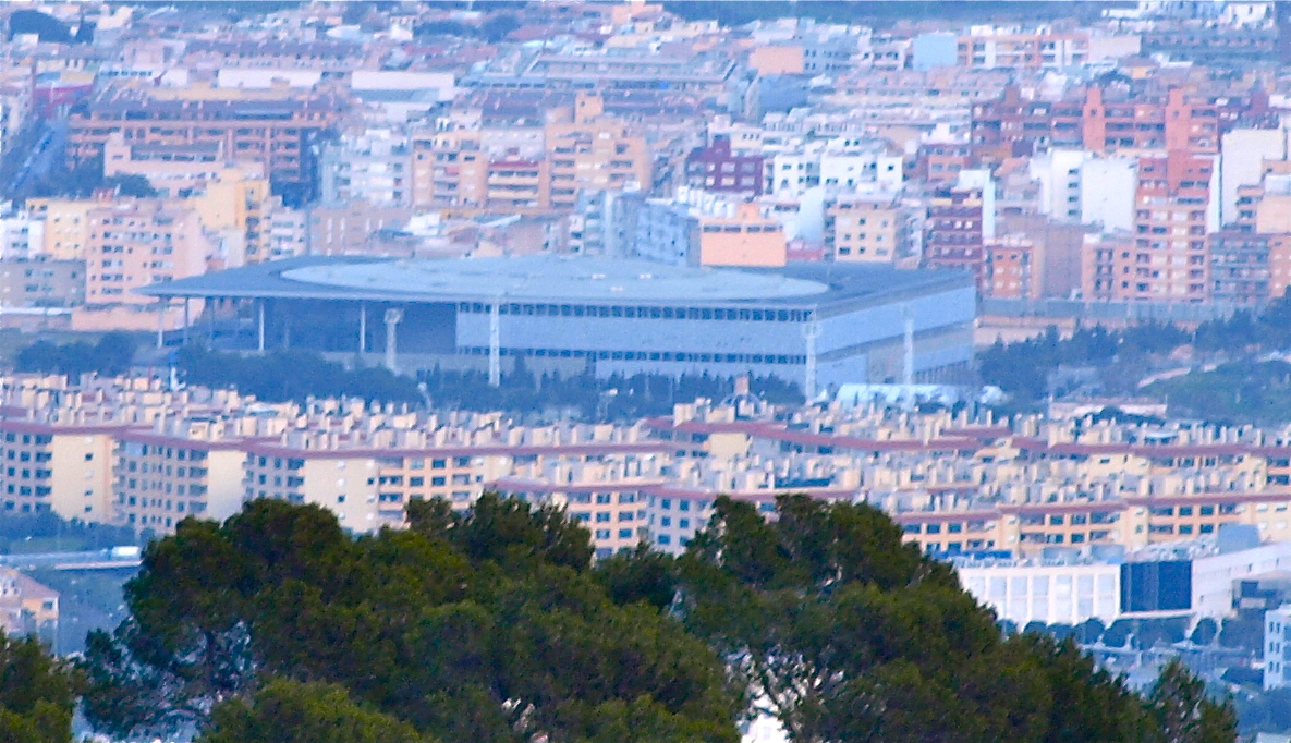 Palma Arena Velodrome Place Lloc/Place: Coll de Sa Creu, Palma